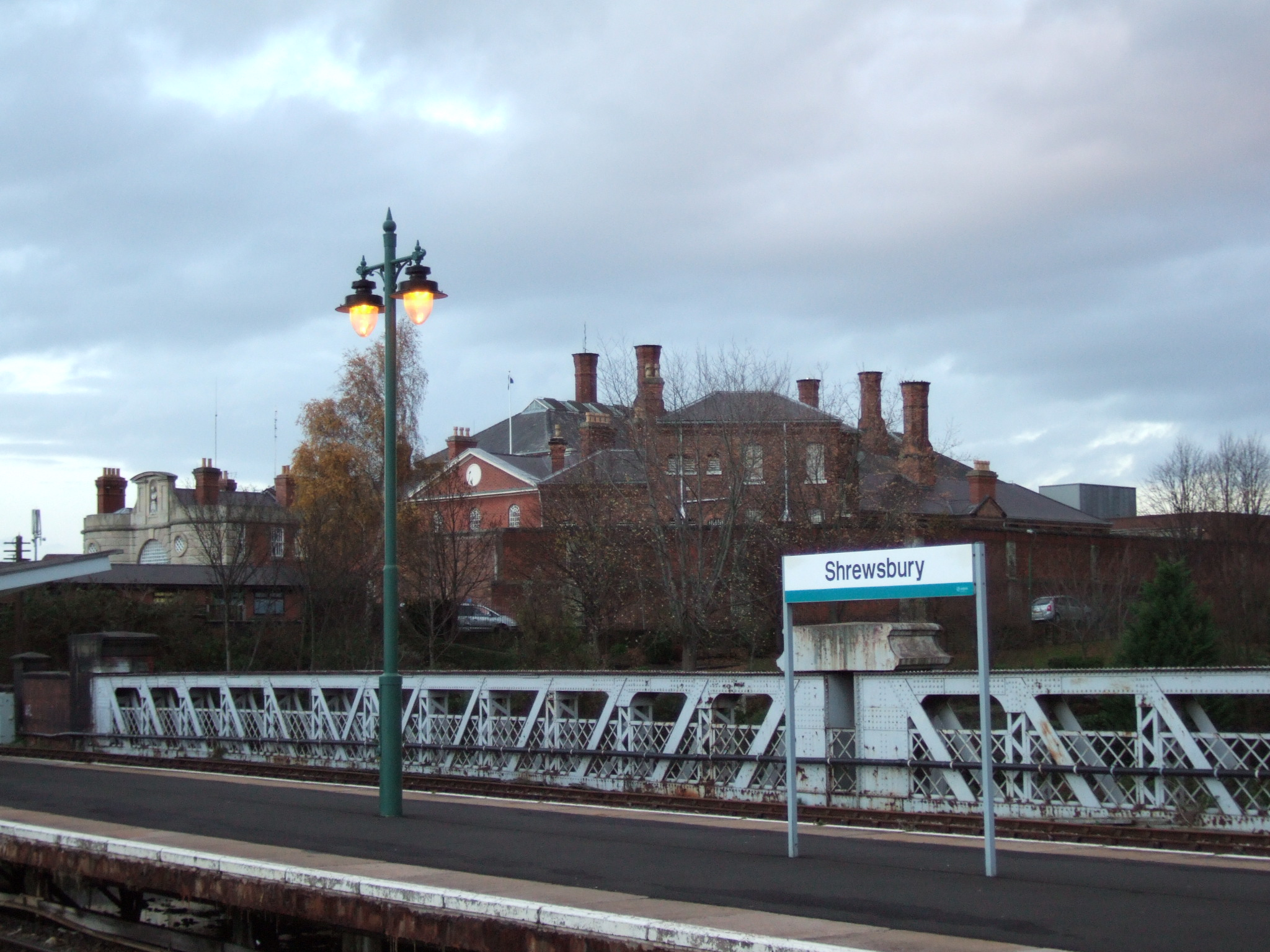 The Dana prison, Shrewsbury, England.